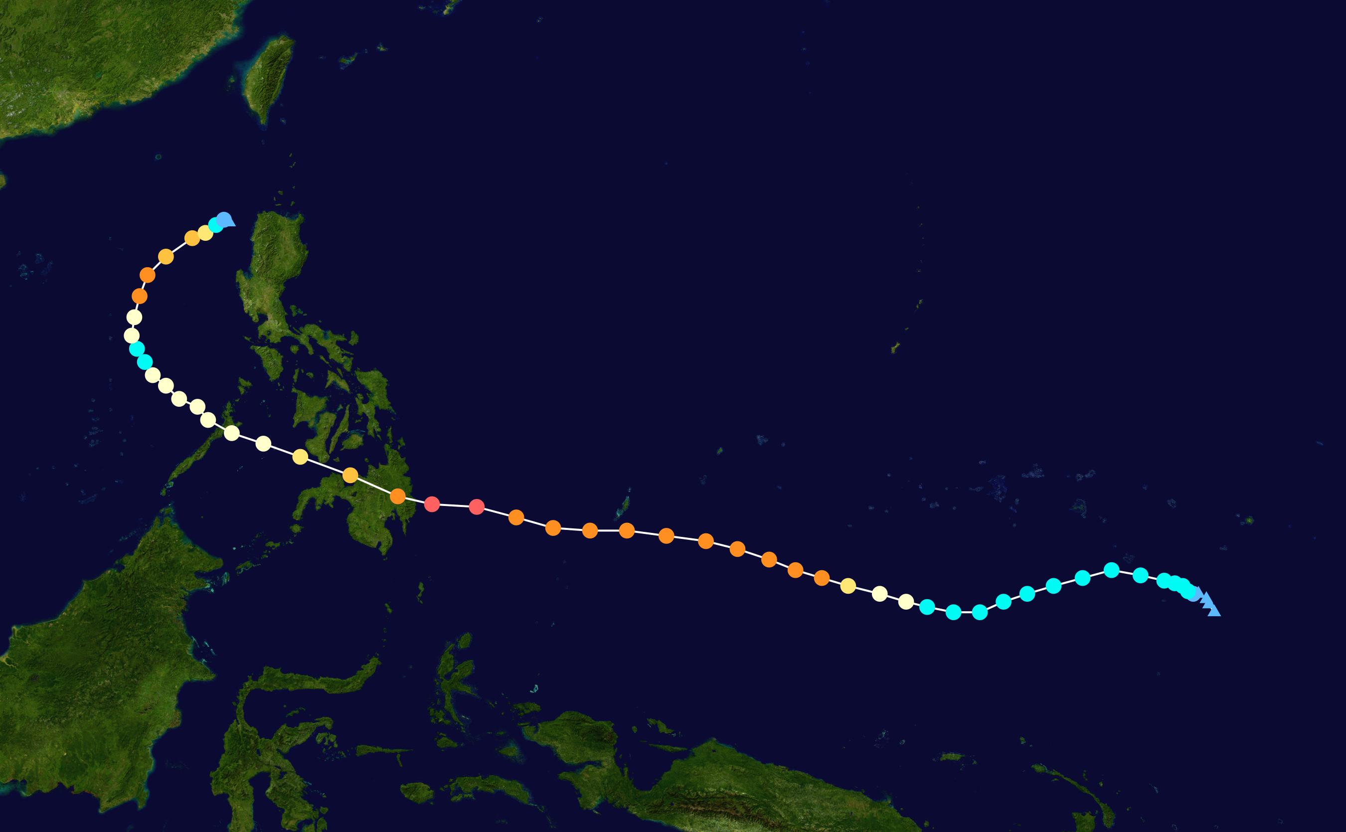 Track map of Typhoon Bopha of the 2012 Pacific typhoon season. The points show the location of the storm at 6-hour intervals. The colour represents the storm's maximum sustained wind speeds as classified in the Saffir–Simpson scale (see below), and the shape of the data points represent the nature of the storm, according to the legend below. Saffir–Simpson scale Tropical depression≤38 mph≤62 km/h Category 3111–129 mph178–208 km/h Tropical storm39–73 mph63–118 km/h Category 4130–156 mph209–251 km/h Category 174–95 mph119–153 km/h Category 5≥157 mph≥252 km/h Category 296–110 mph154–177 km/h Unknown Storm type Tropical cyclone Subtropical cyclone Extratropical cyclone / Remnant low / Tropical disturbance / Monsoon depression